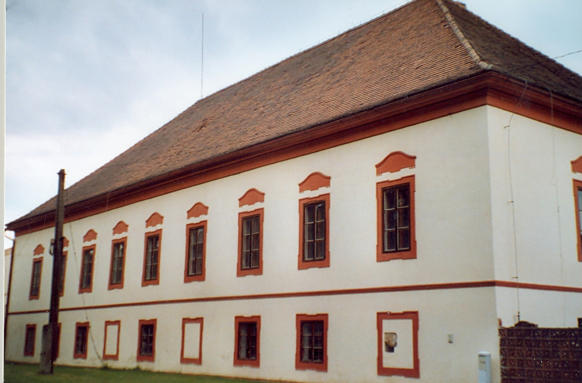 Castle in Lenešice